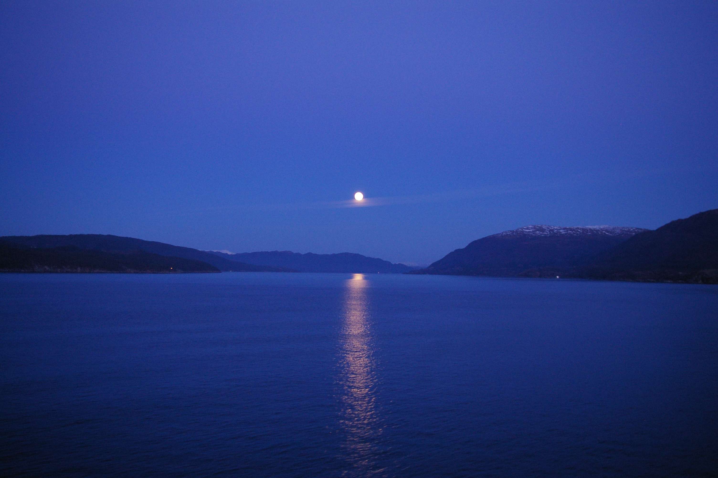 Langenuen in moonlight, seen from the ferry between Halhjem and Sandvikvåg, Norway. Stord to the right, Tysnes to the left.